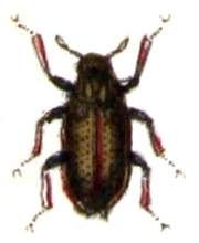 Potamophilus acuminatus, from Calwer's Käferbuch, Table 16, Picture 28. Taxonomy was updated to 2008, using mostly the sites Fauna Europaea and BioLib. Please contact Sarefo if the determination is wrong!